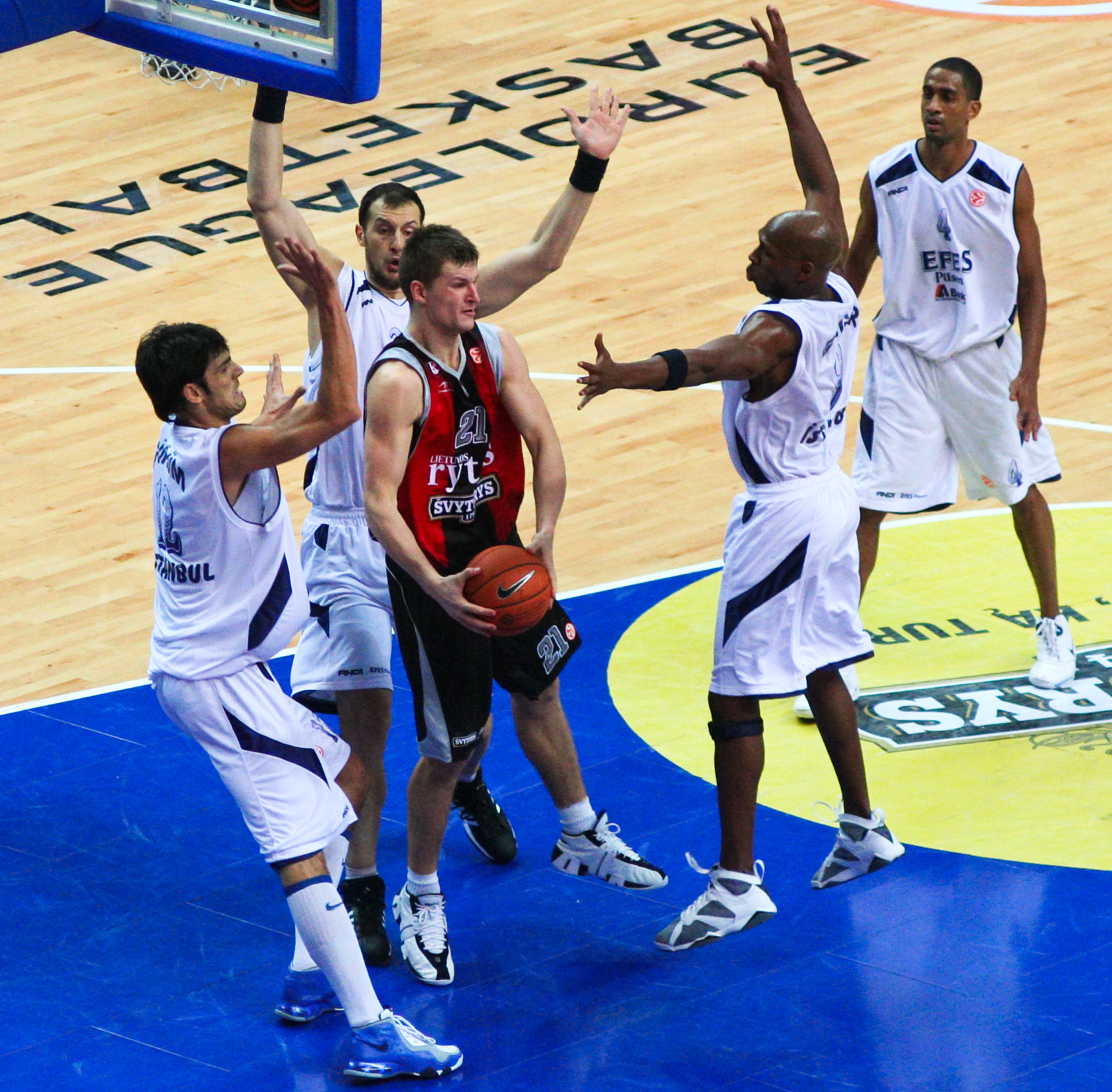 Artūras Jomantas (black and red jersey) in action during BC Lietuvos Rytas Vilnius home game against BC Efes Pilsen Istanbul in Siemens Arena, Lithuania